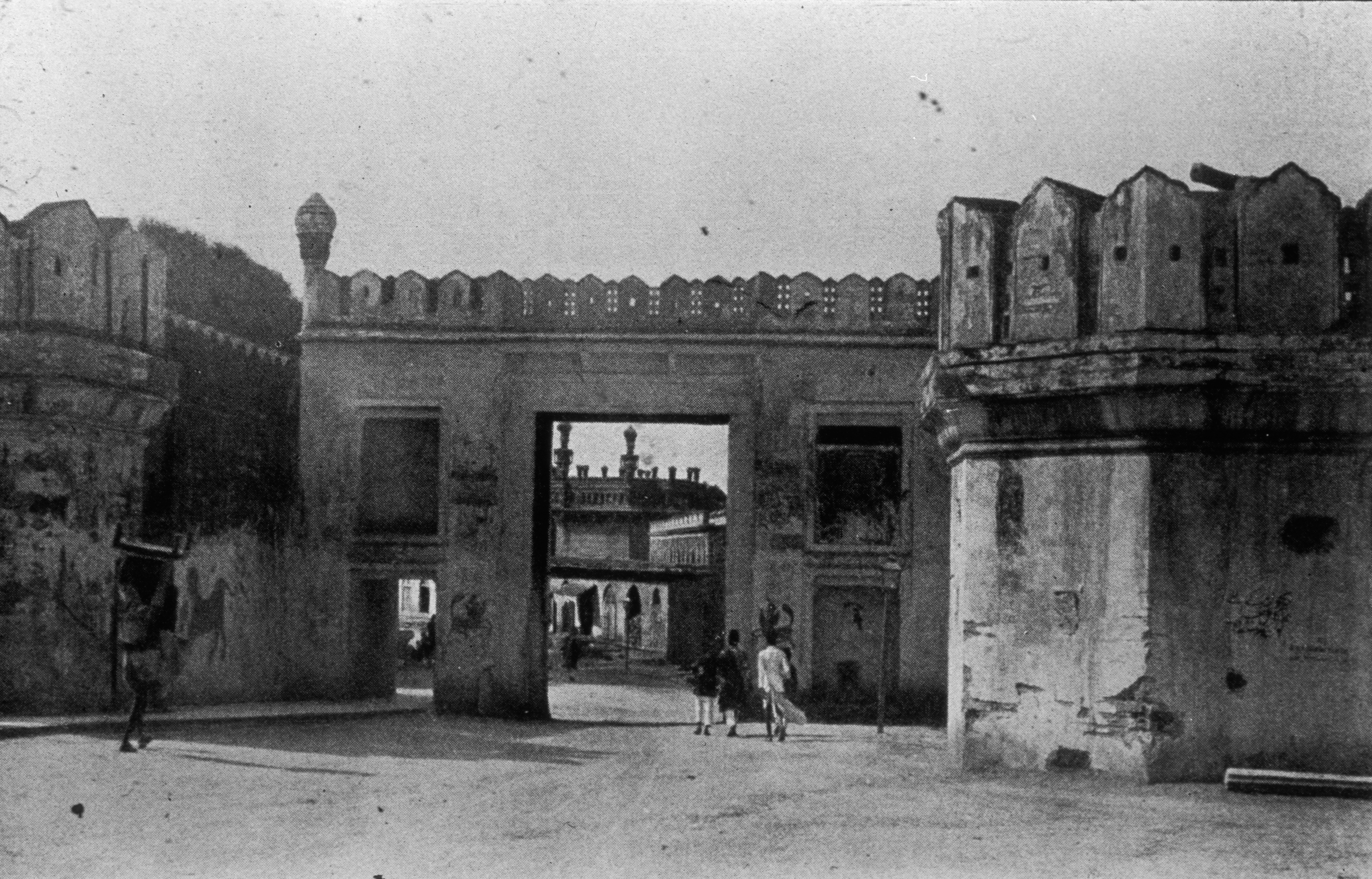 General view of Hyderabad city wall in 1920s showing Purana Pul Darwaza from north. Built during the Qutub Shahi times. This is one of the two surviving out of 13 gates.